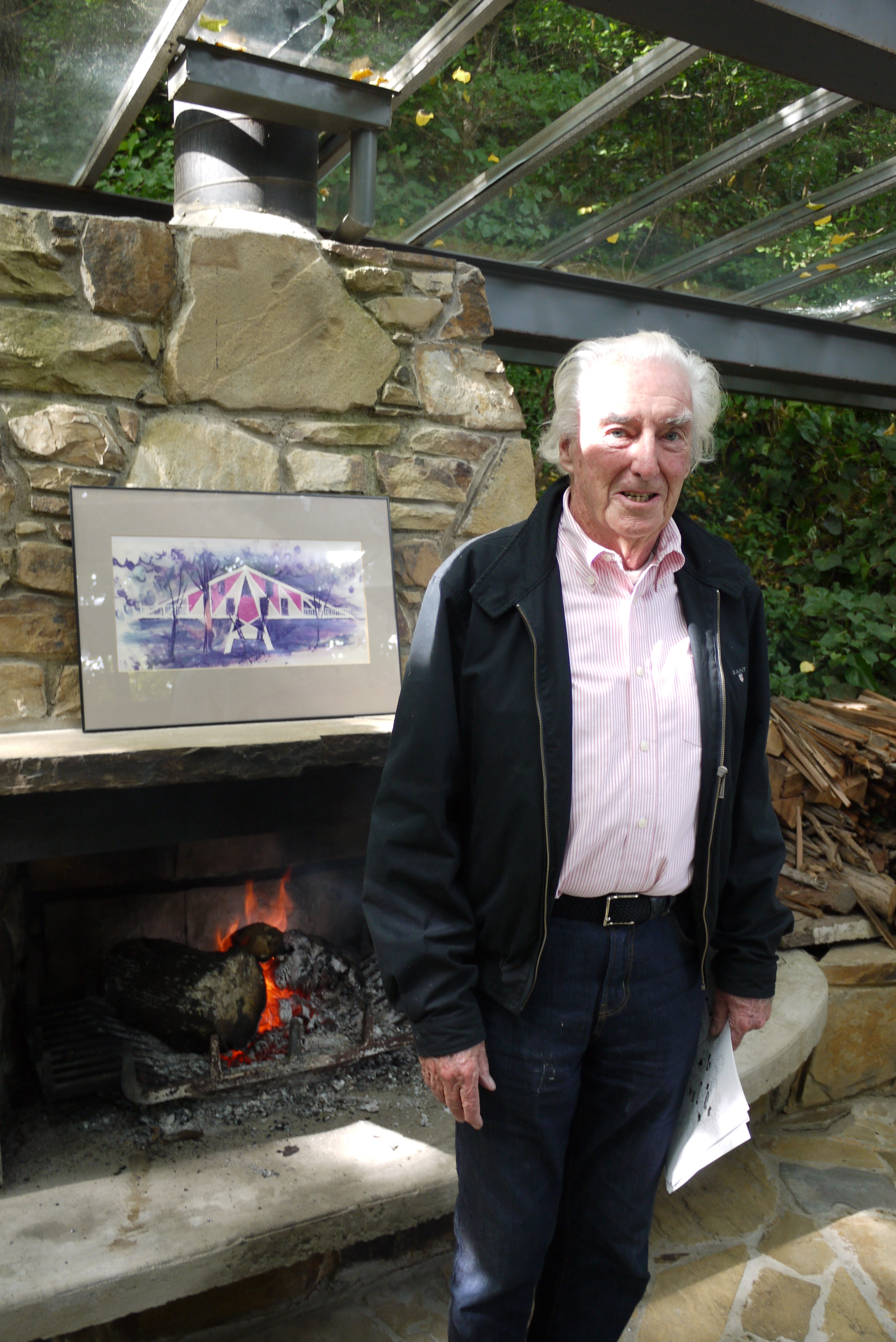 Peter McIntyre standing in front of an artboard that communicates his river residence idea.